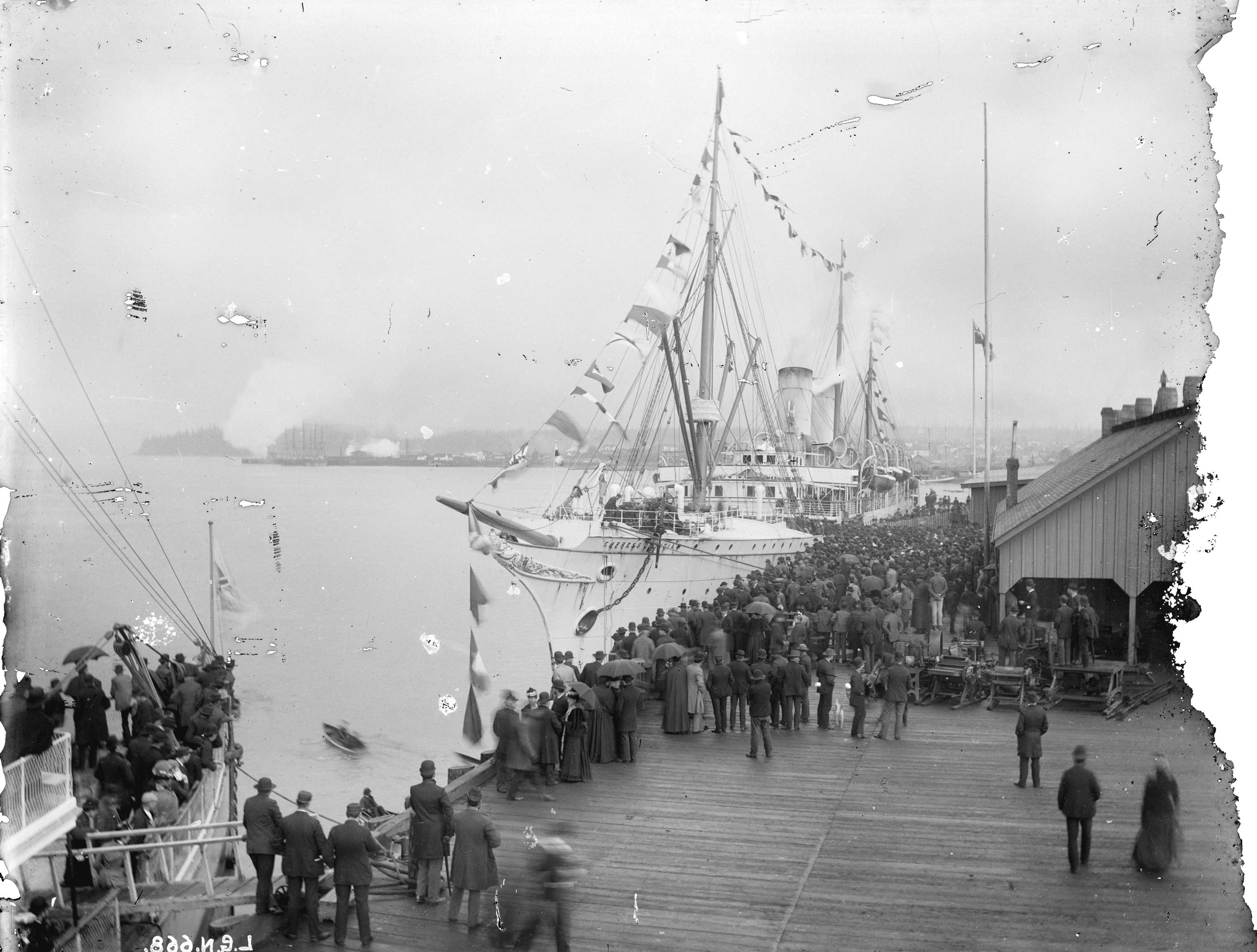 First arrival of S.S. "Empress of India" in Vancouver, B.C., Canada.